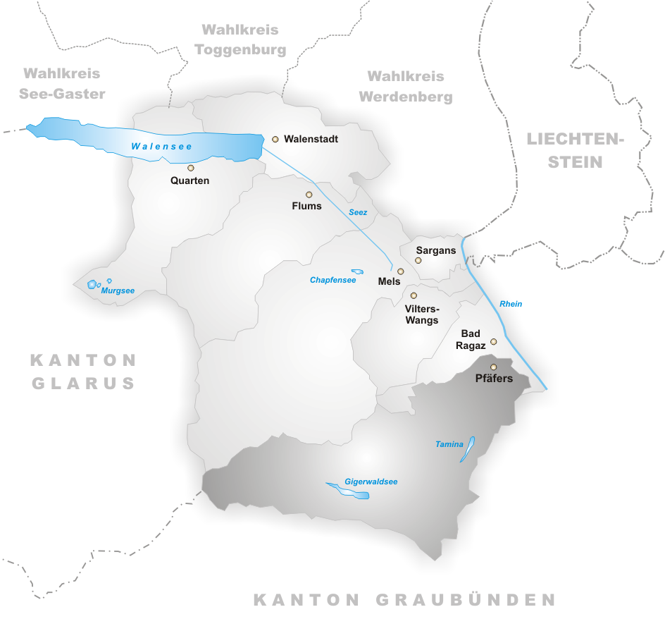 Municipality Pfäfers